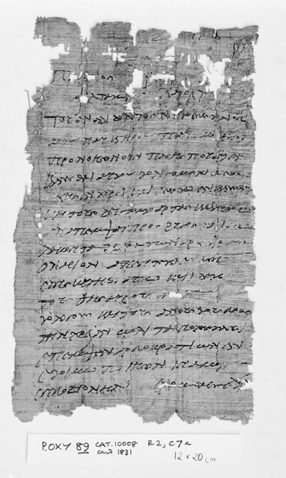 Payment of Corn